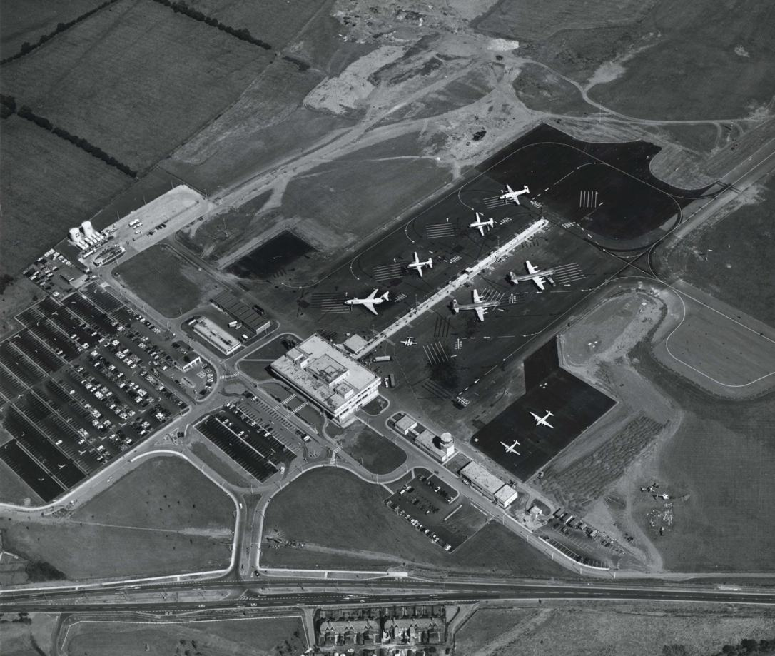 A new North East Regional Airport Committee was formed in April 1963, paving the way for the major developments seen in this photograph. Construction of the new terminal was completed in 1966 and officially opened by Prime Minister Harold Wilson on February 17 1967. The 1960s saw a boom in demand for foreign sunshine holidays, especially to Spain. Reference: TWAS: DT.TUR.7.46 (Copyright) We're happy for you to share this digital image within the spirit of The Commons. Please cite 'Tyne & Wear Archives & Museums' when reusing. Certain restrictions on high quality reproductions and commercial use of the original physical version apply though; if you're unsure please . To purchase a hi-res copy please quoting the title and reference number.